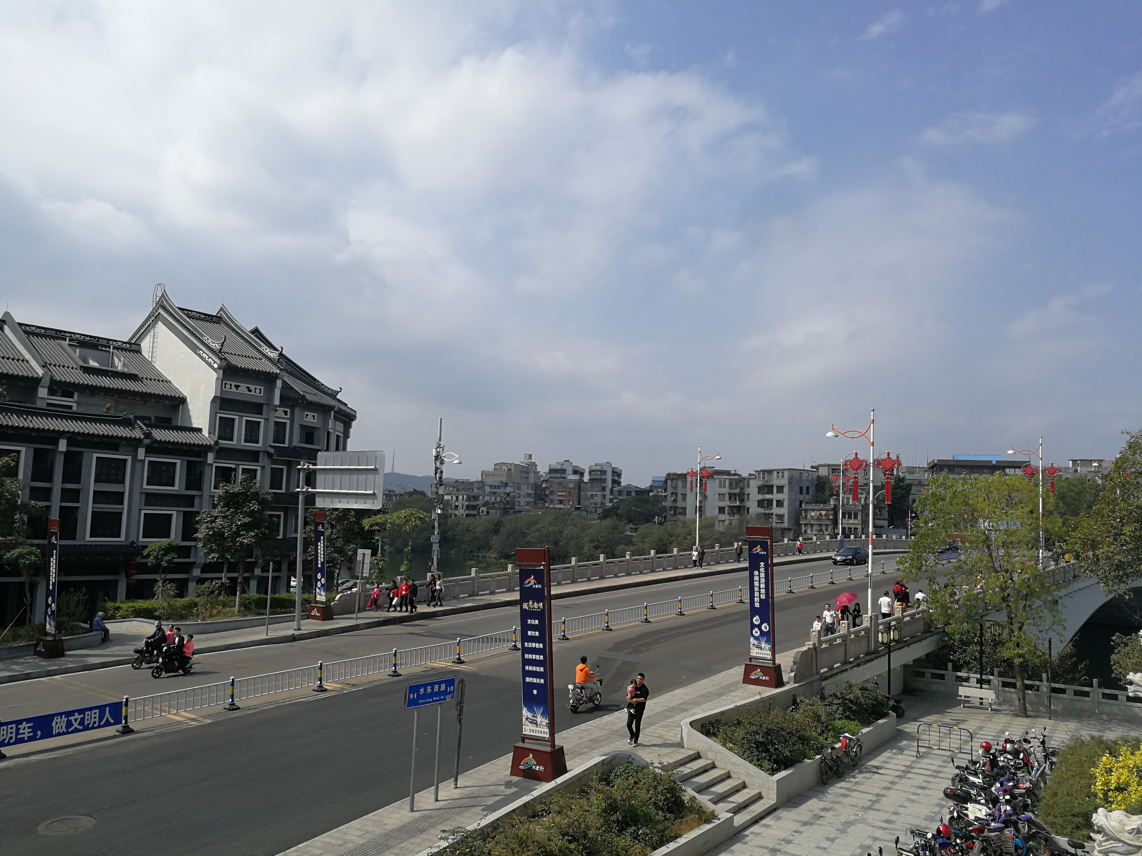 A commanding view of Dongxin Bridge from Hejiang Building.